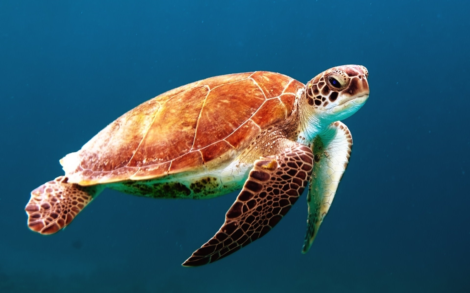 Wexor Tmg 2015